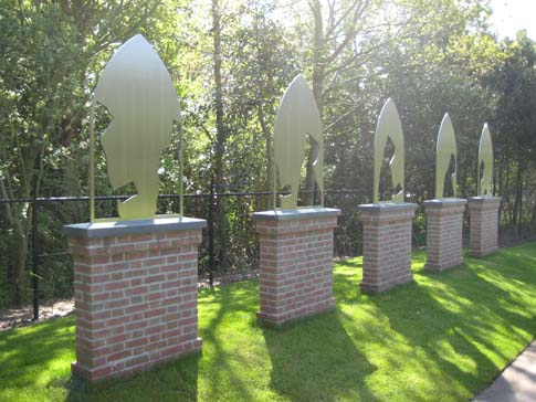 'kloostergang' is a sculpture along the access road to the abbey of Egmond (NL)